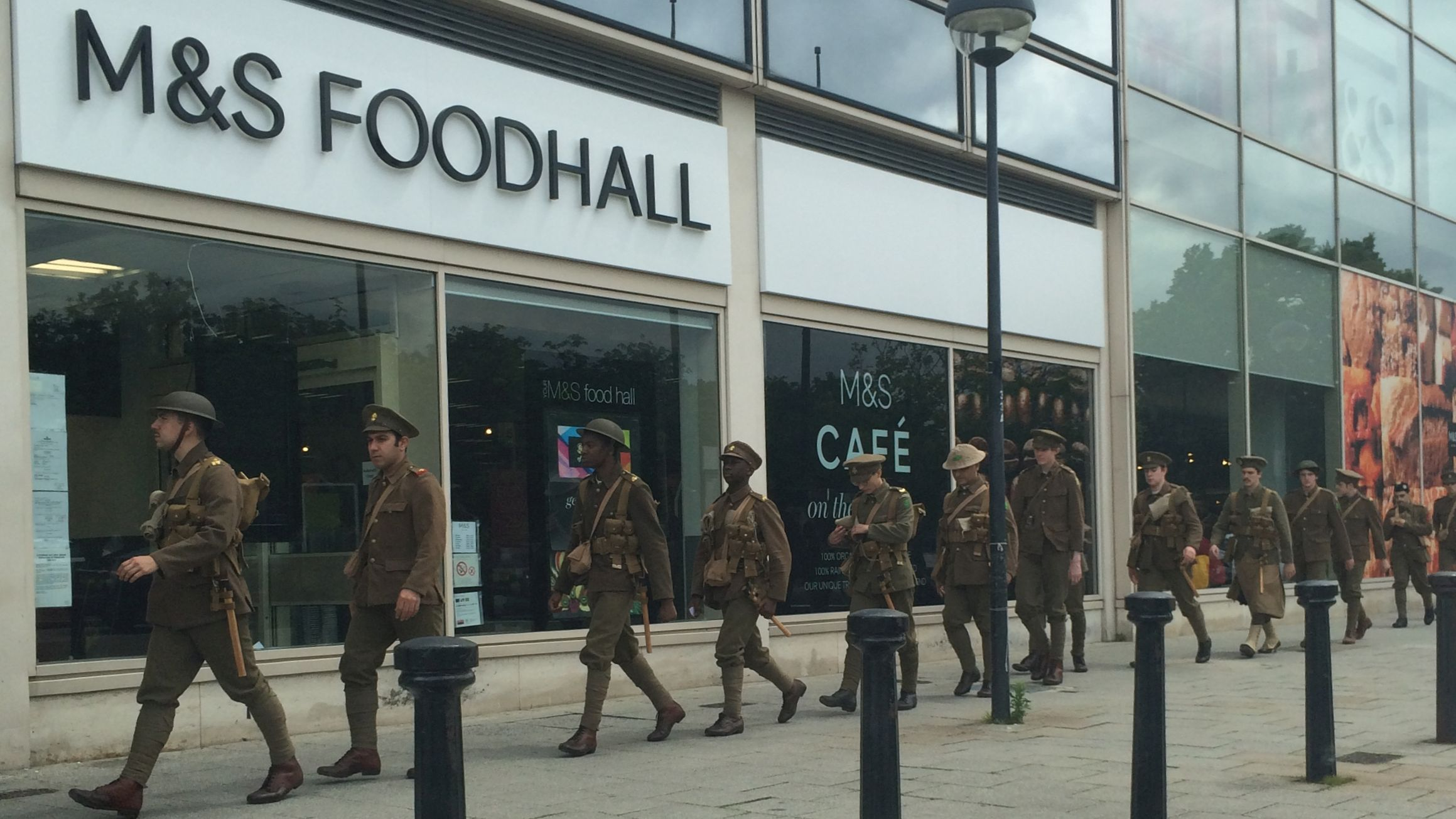 wearehere actors in central milton keynes, on 1st July 2016, the 100 year mark from the start of the Battle of the Somme.